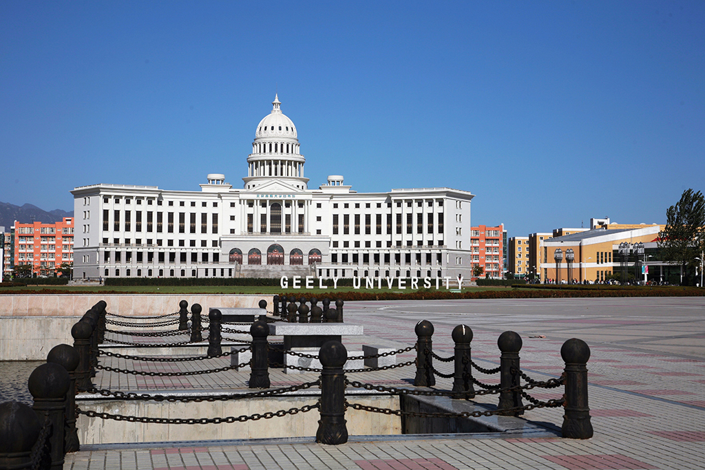 BeiJing Geely University